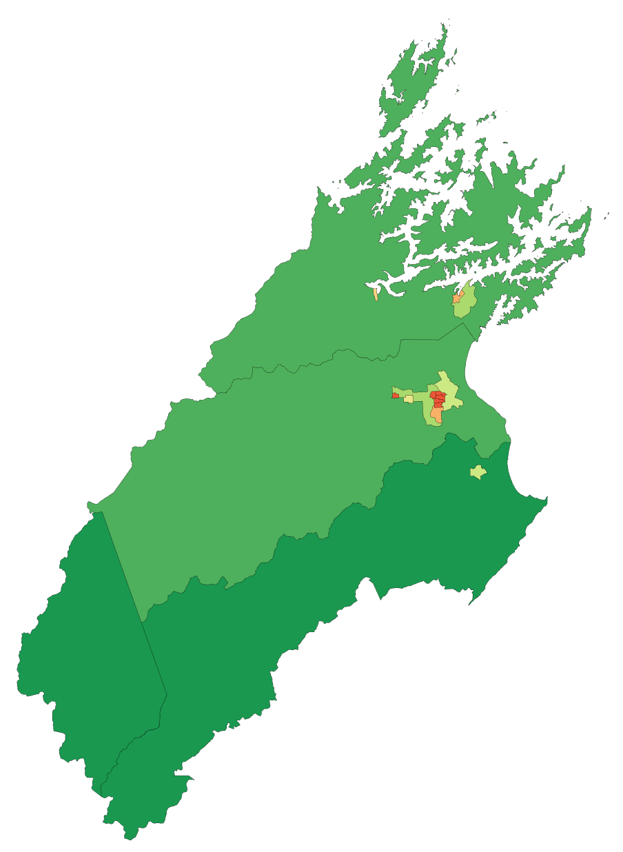 Map showing population density of a region of New Zealand (by Statistics NZ Area Unit) as of the 2006 census